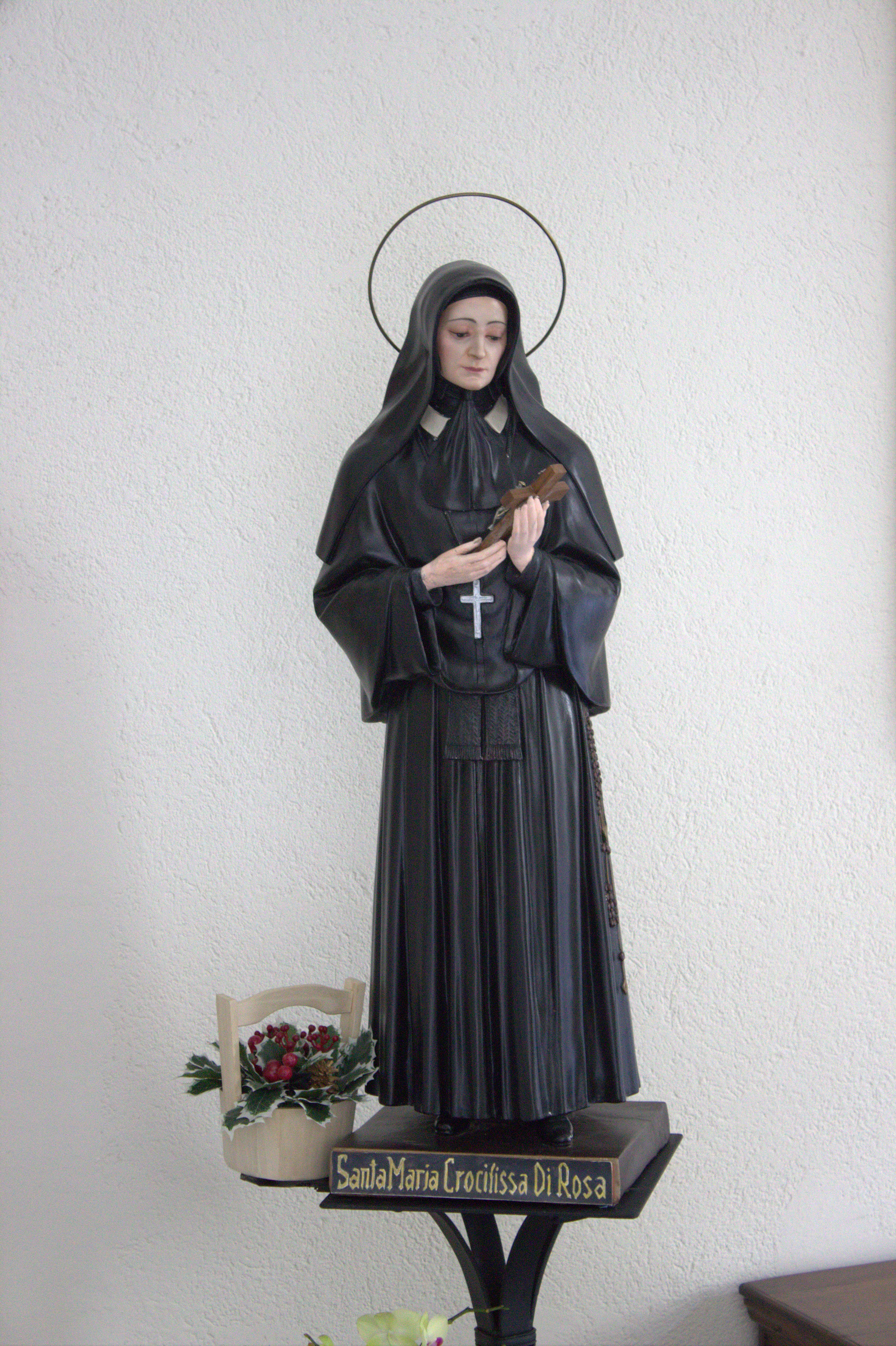 Bagolino.